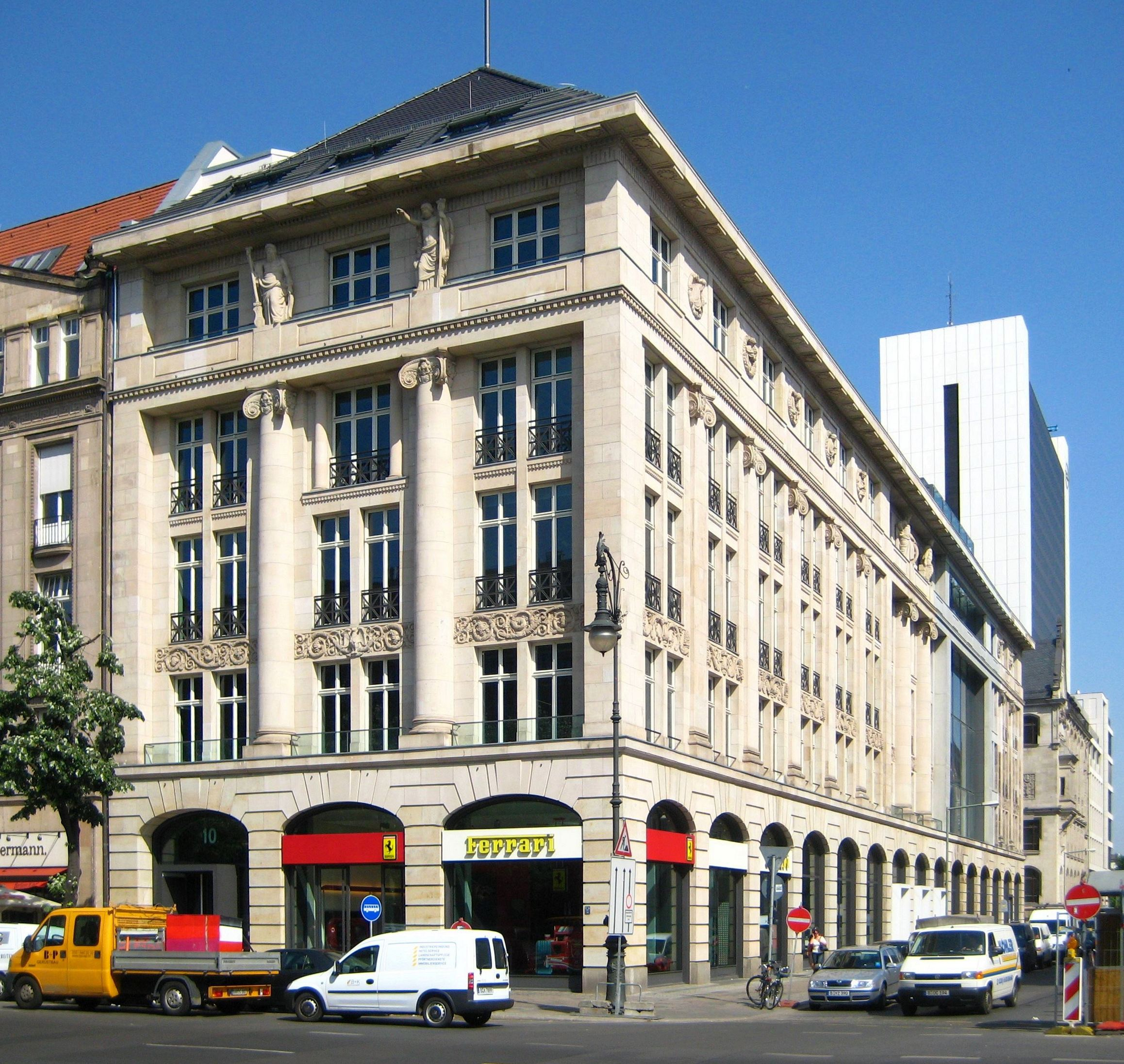 Römerhof or Römischer Hof at Unter den Linden corner of Charlottenstraße in Berlin; built 1910-1911 by architects Kurt Berndt and A. F. M. Lange as an office and commercial building; it is landmarked